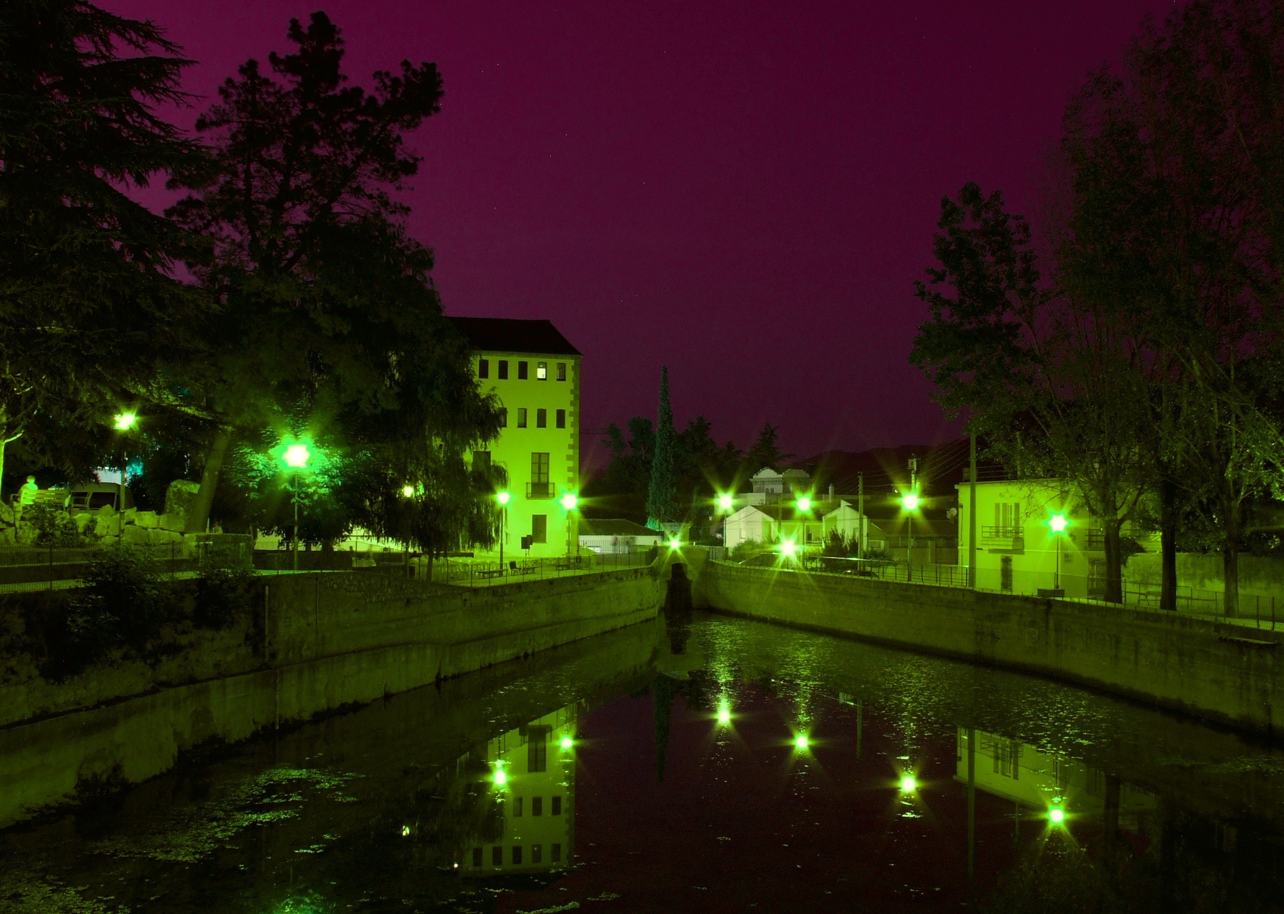 Night view of the lake anb the paper museum of Capellades